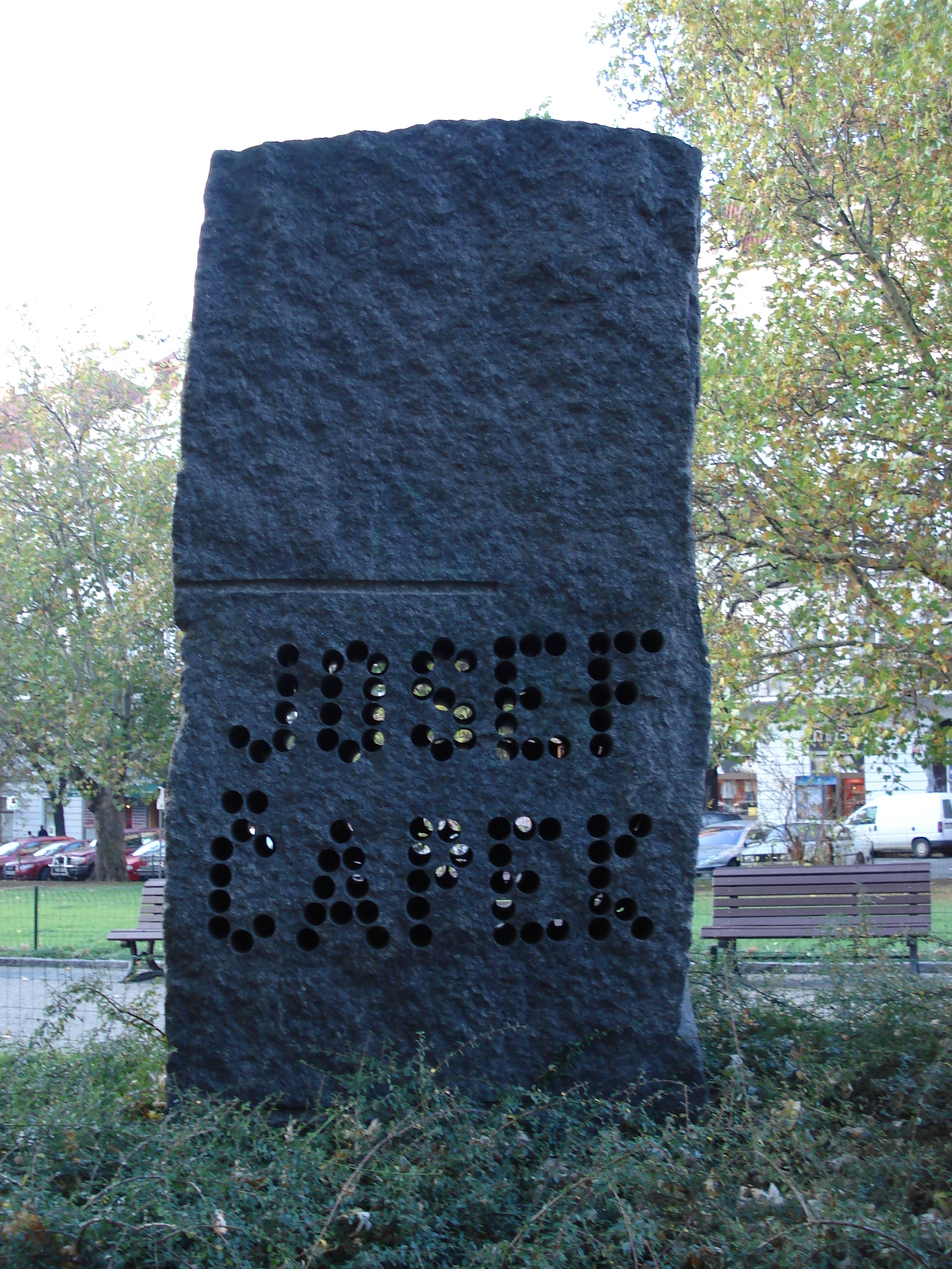 Monument to Josef & Karel Capek {Josef's side - see Karel's).